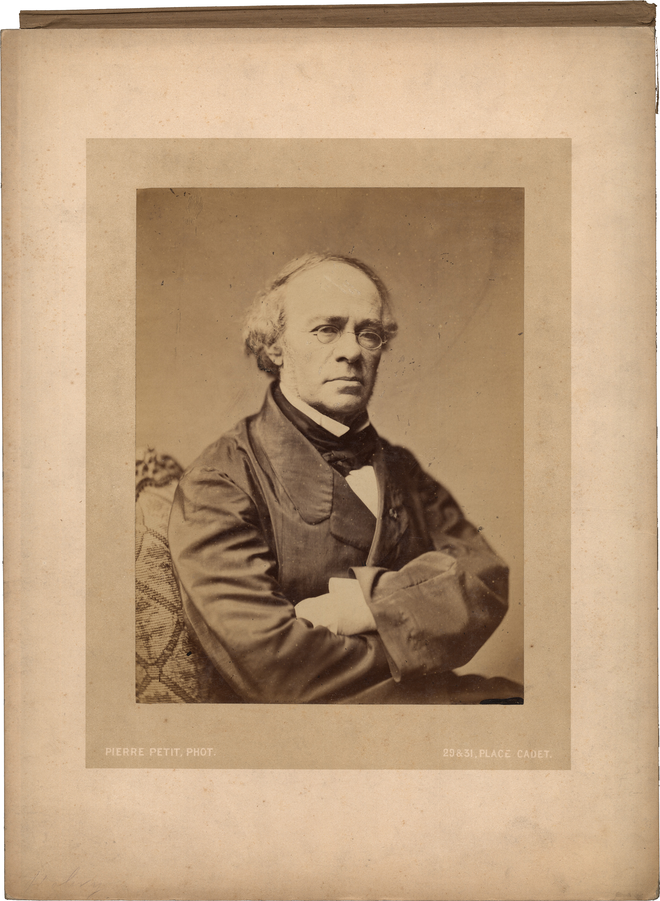 Portrait of Fromental Halévy, baritone (1826-1897). Photo by Pierre Petit, Parigi, before 1897.